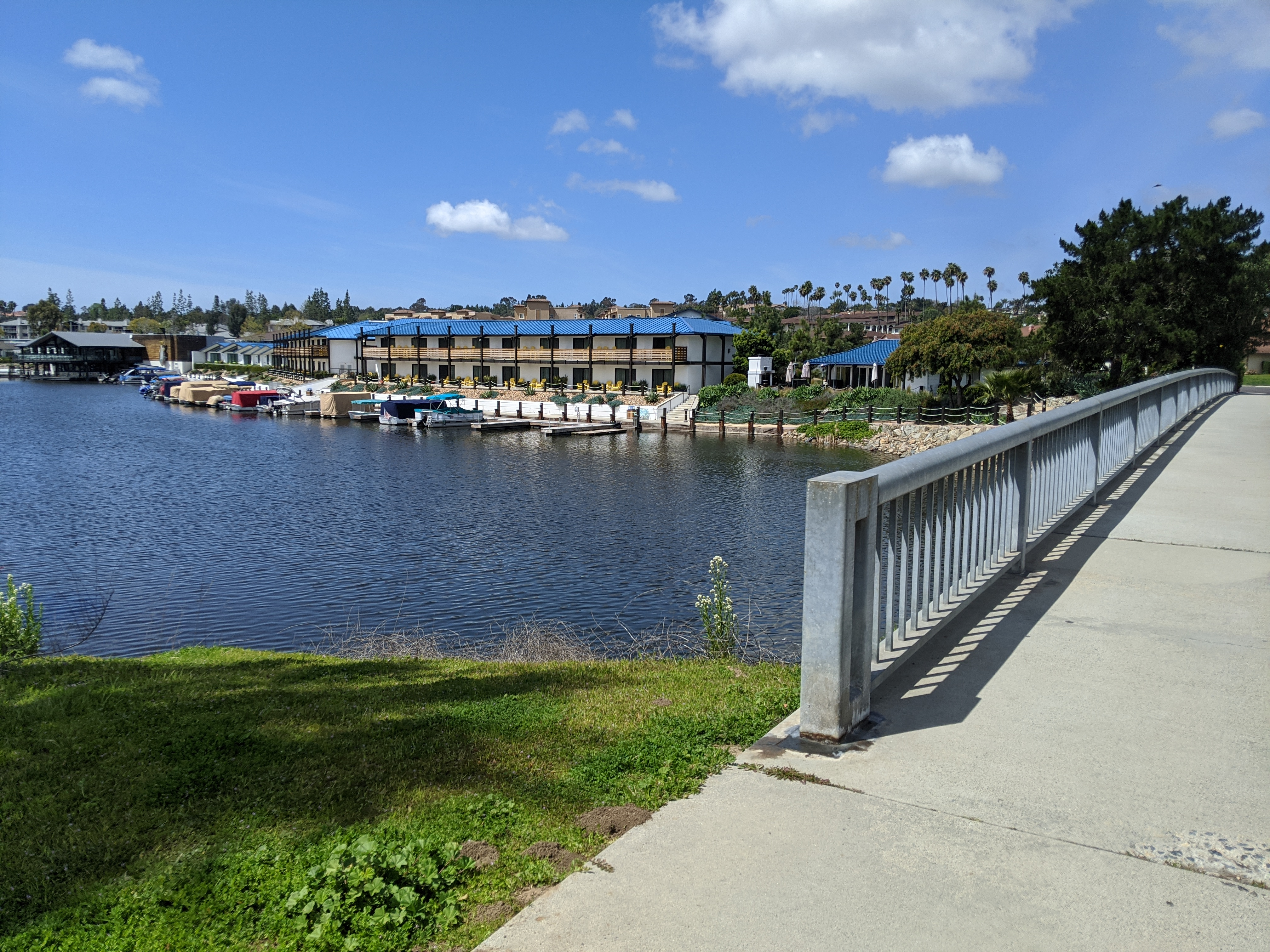 Lake Hotel viewed from the Bridge